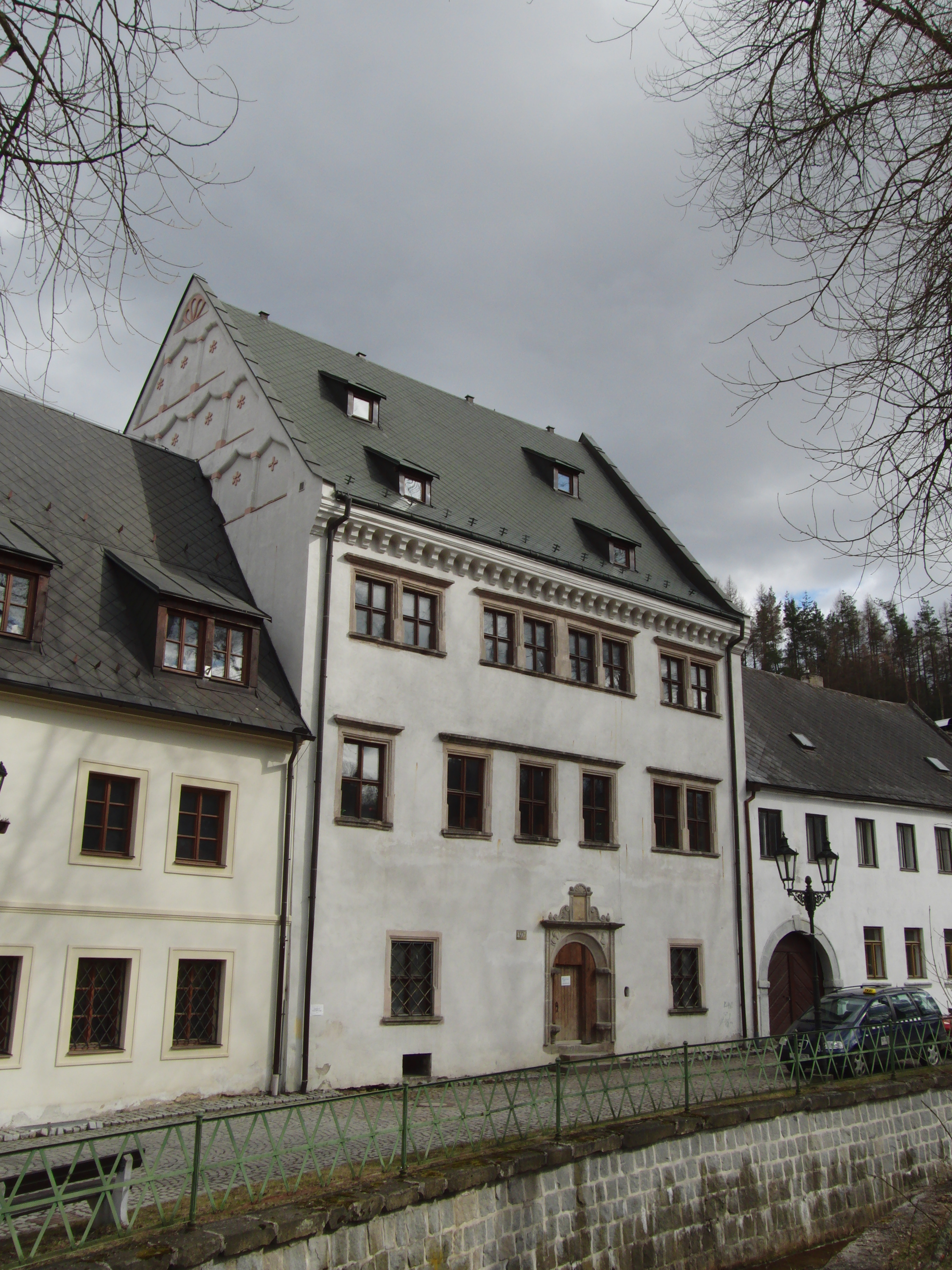 497Street in old part of Horní Slavkov